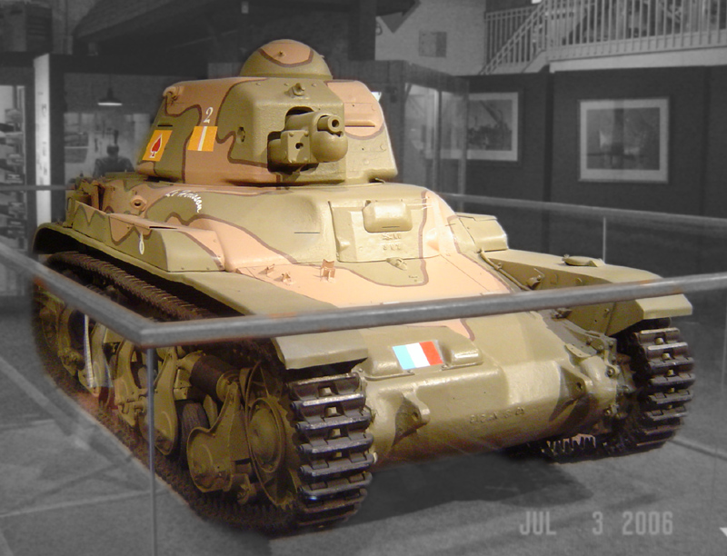 Renault R35 on display at the US Army Ordnance Museum in Aberdeen. The picture taken July 3, 2006.